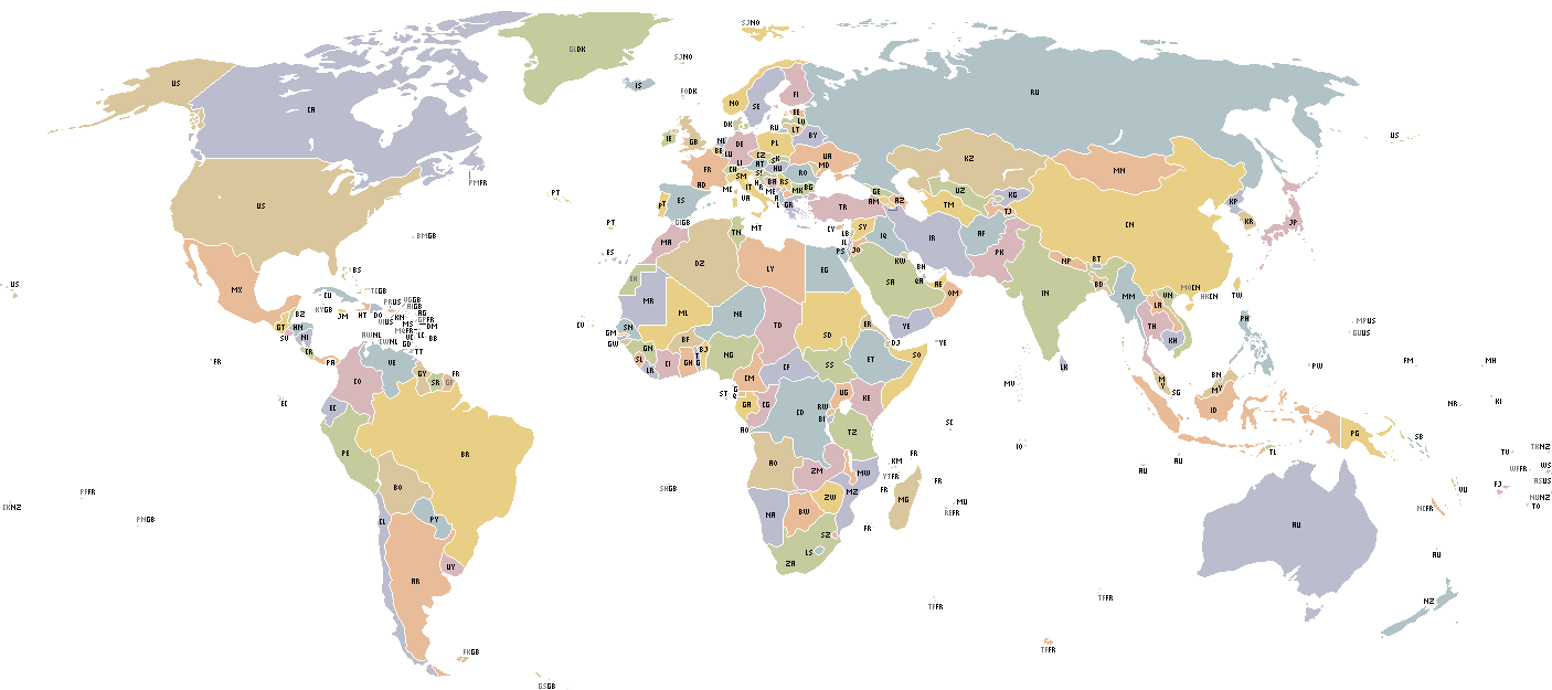 World map political ISO